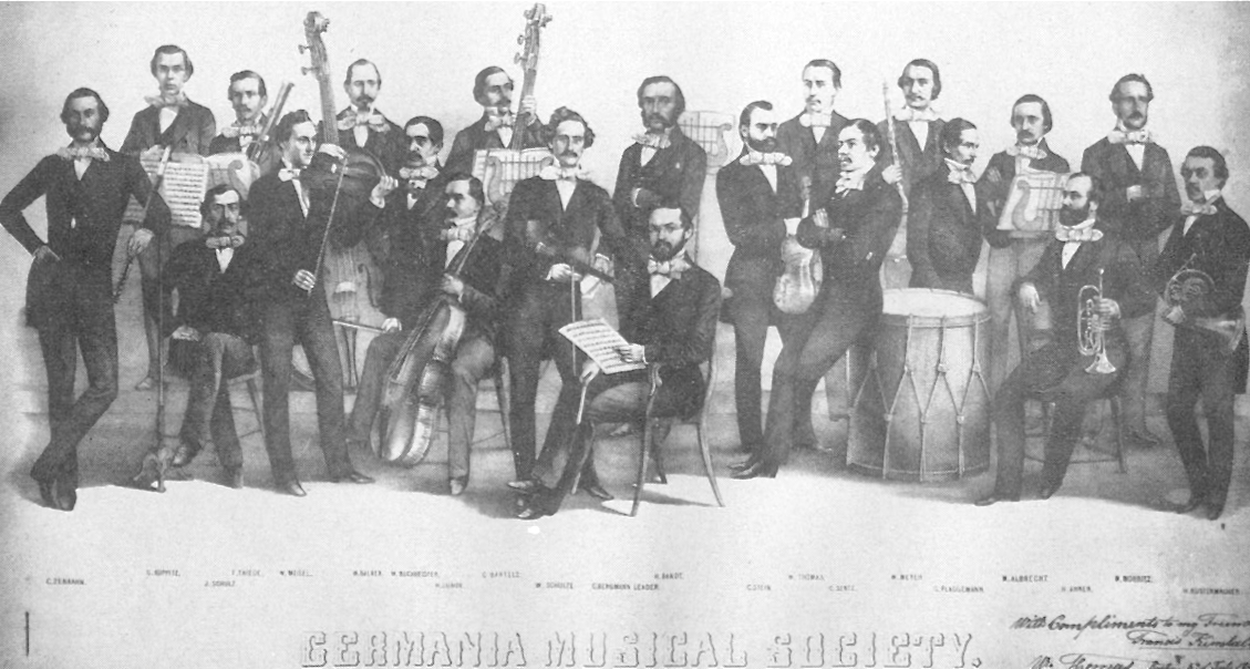 Portrait of the Germania Musical Society, a group of musicians originally from Germany that toured in the United States, 1848-1854.